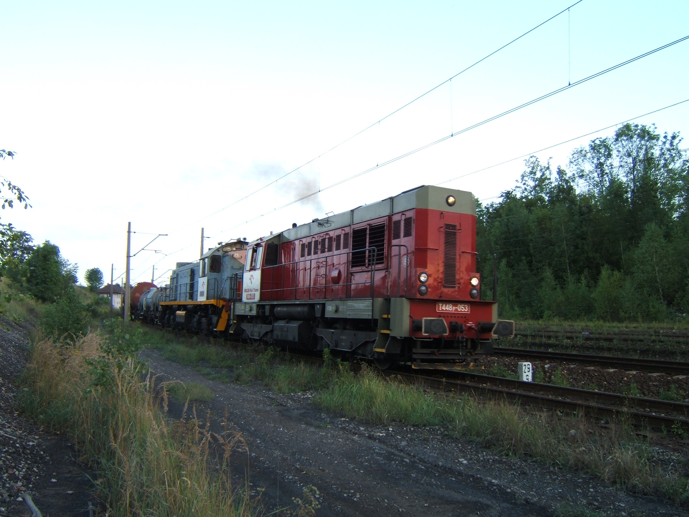 T448p-053 diesel locomotive, property of Orlen KolTrans. The second is TEM2.